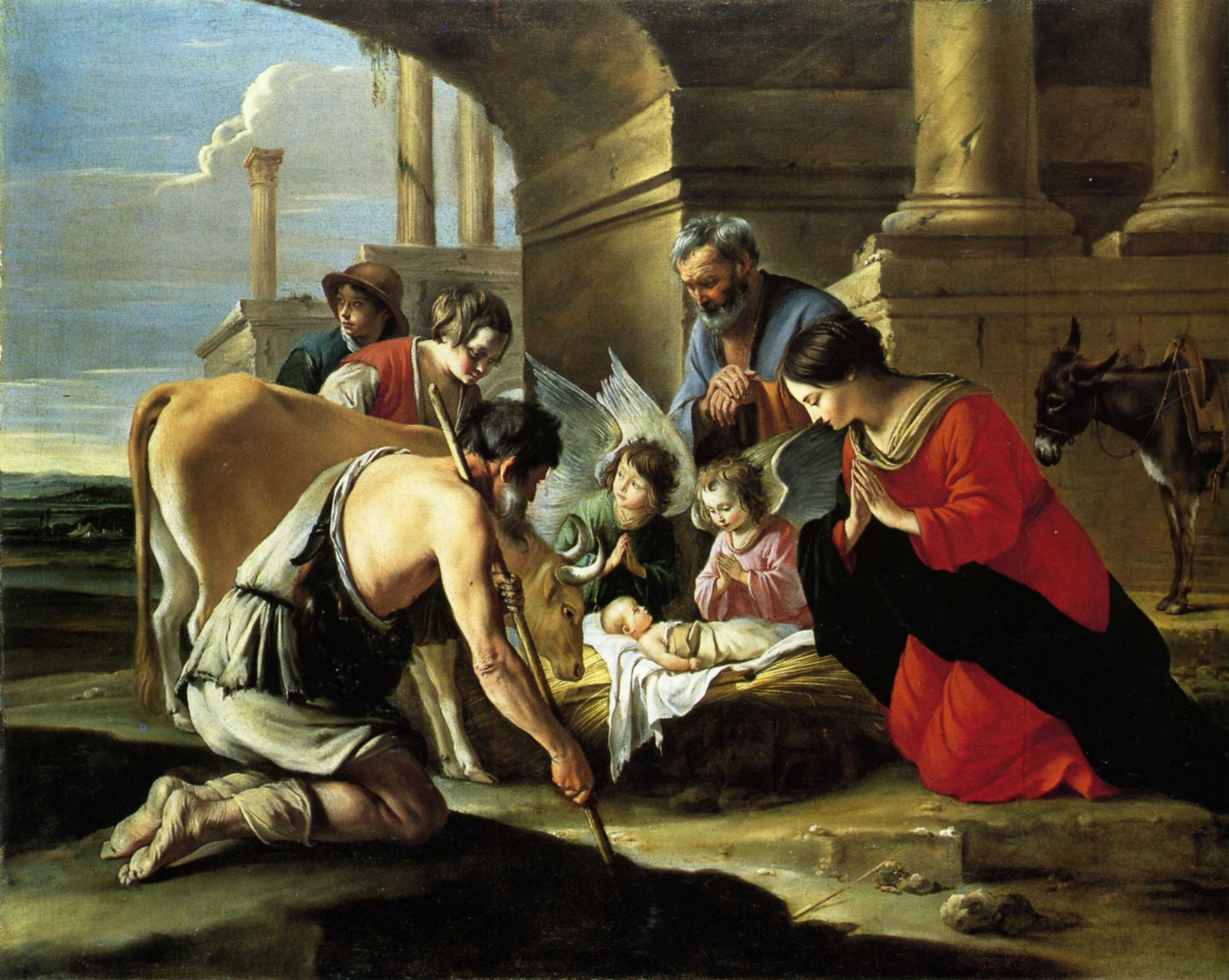 The Adoration of the Shepherds, about 1640, The Le Nain Brothers, Oil on canvas Dimensions 109.2 x 138.7 cm Acquisition credit Bought, 1962 Inventory number NG6331 Location in Gallery Room 18